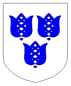 Old coat of arms of Jõhvi Parish (?–2005).